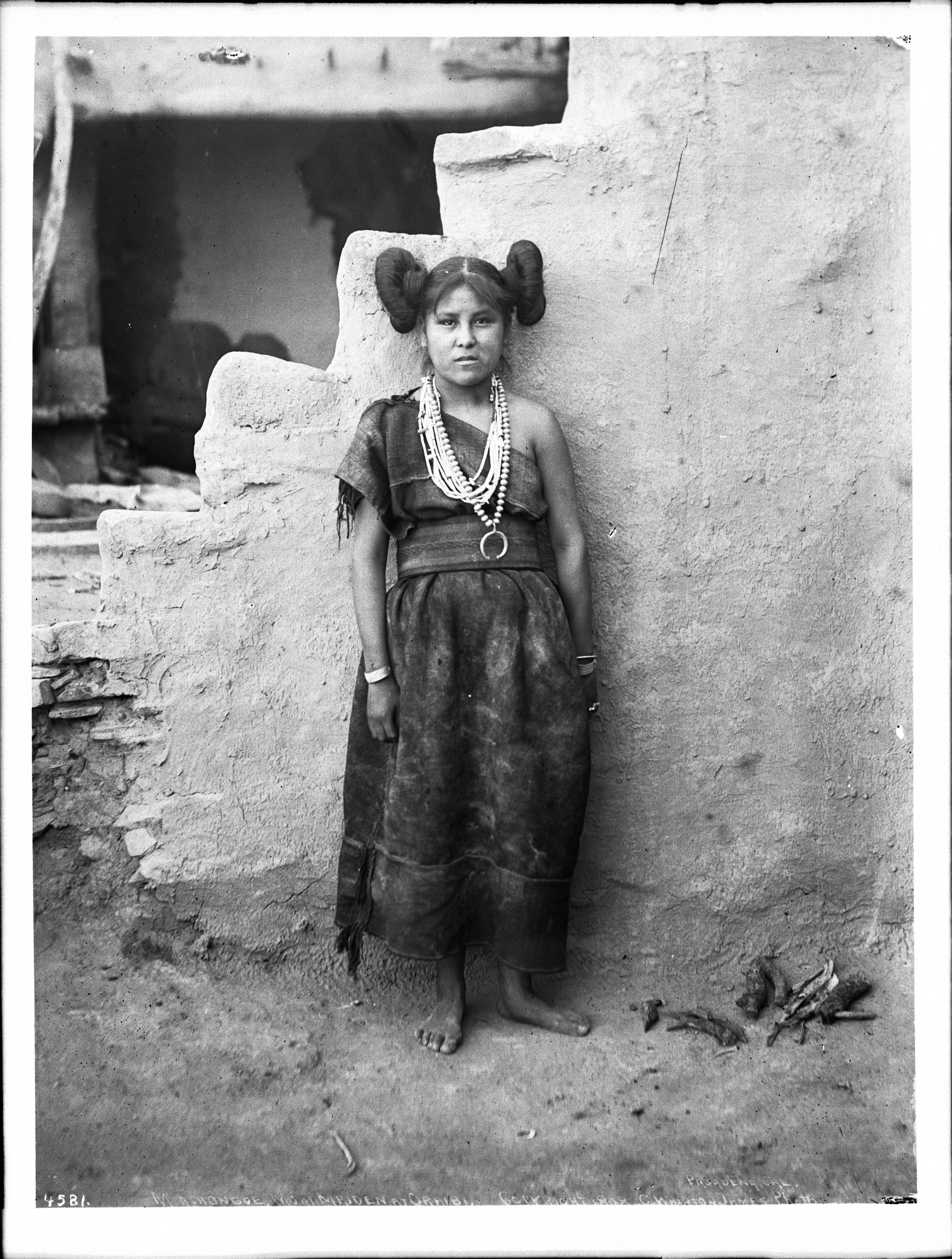 Mashonga, a Hopi maiden wearing rich silver ornaments made by Navajo Indians, Oraibi, Arizona, ca.1898 Photograph of Mashonga, a Hopi maiden wearing rich silver ornaments made by Navajo Indians, Oraibi, Arizona, ca.1898. She wears a dress with one shoulder, no shoes, multiple necklaces and bracelets. Her hair is arranged traditionally into flat buns on each side of her head. She stands against a wall that has stairs. Call number: CHS-4581 Legacy record ID: chs-m16912; USC-1-1-1-13518 Photographer: James, George Wharton Filename: CHS-4581 Coverage date: circa 1898 Part of collection: California Historical Society Collection, 1860-1960 Type: images Geographic subject (city or populated place): Oraibi Repository name: USC Libraries Special Collections Accession number: 4581 Microfiche number: 1-168- Archival file: chs_Volume96/CHS-4581.tiff Part of subcollection: Title Insurance and Trust, and C.C. Pierce Photography Collection, 1860-1960 Repository address: Doheny Memorial Library, Los Angeles, CA 90089-0189 Geographic subject (country): USA Format (aacr2): 2 photographs : glass photonegative, photoprint, b&w ; 22 x 17 cm. Rights: Digitally reproduced by the USC Digital Library; From the California Historical Society Collection at the University of Southern California Subject (adlf): tribal areas Project: USC Repository Identifying number: unidentified no: James-33 Contributing entity: California Historical Society Date created: circa 1898 Publisher (of the digital version): University of Southern California. Libraries Format (aat): photographic prints; photographs Geographic subject (state): Arizona Subject (file heading): Indians -- Hopi -- General Format: glass plate negatives Access conditions: Send requests to address or e-mail given. Phone (213) 821-2366; fax (213) 740-2343. Geographic subject (county): Navajo Subject (lcsh): Indians of North America; Hopi Indians